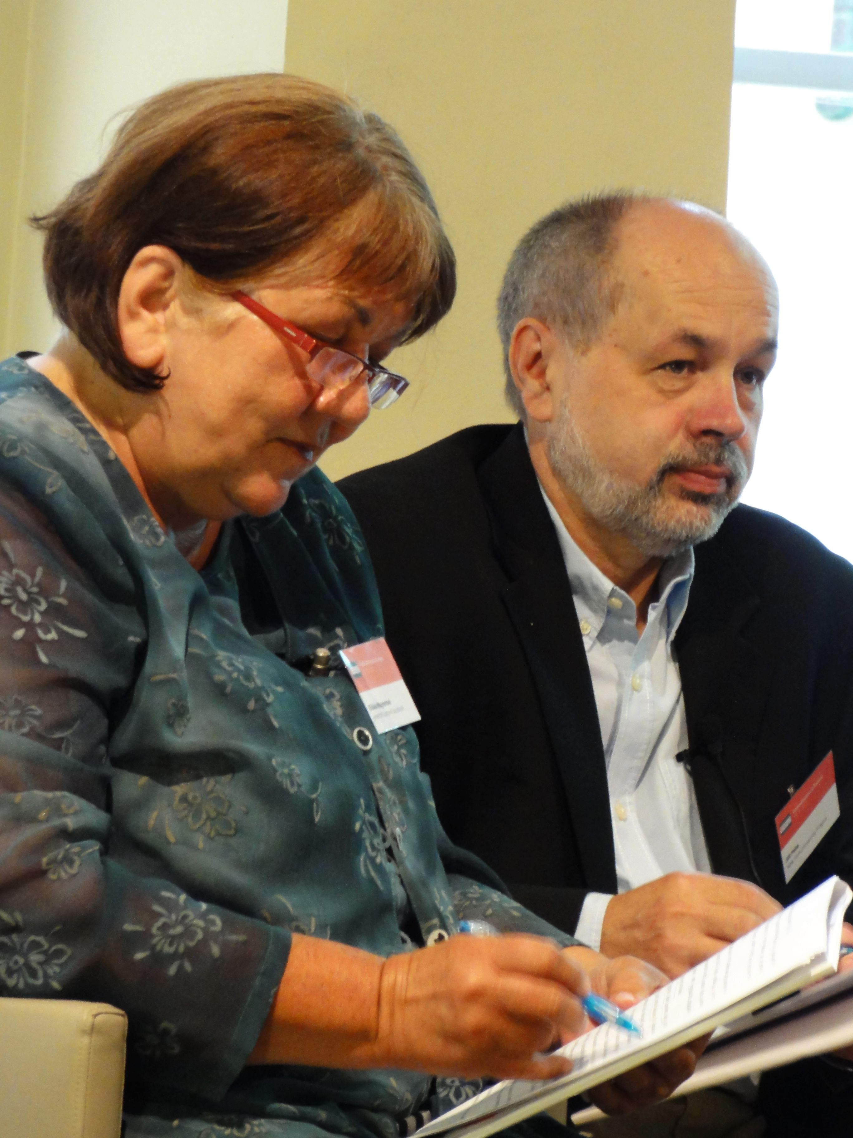 Eliška Wagnerová and Jiří Pehe at a conference "Federalism and Europe" held by Václav Havel Library at the University of New York in Prague.